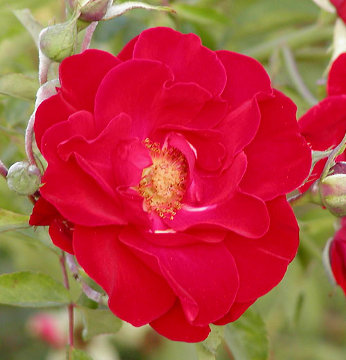 Photo of Rosa 'Alain' at the San Jose Heritage Rose Garden